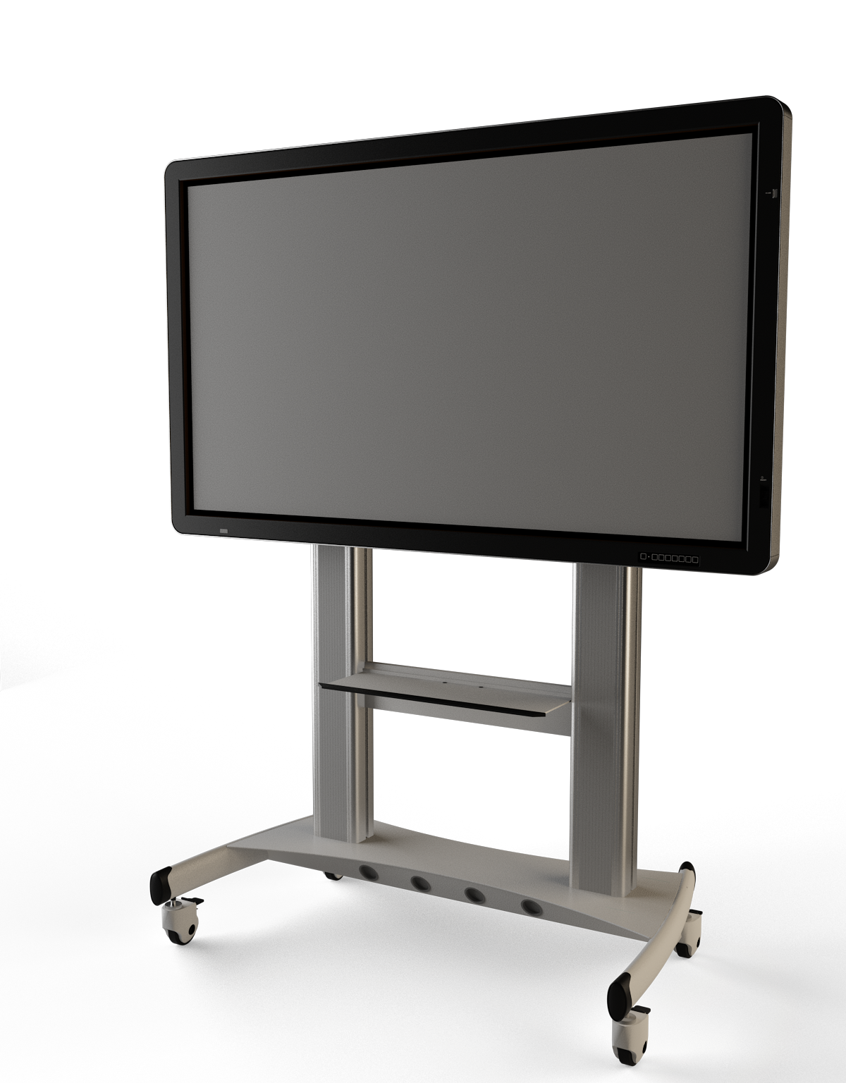 Tecslate and stand